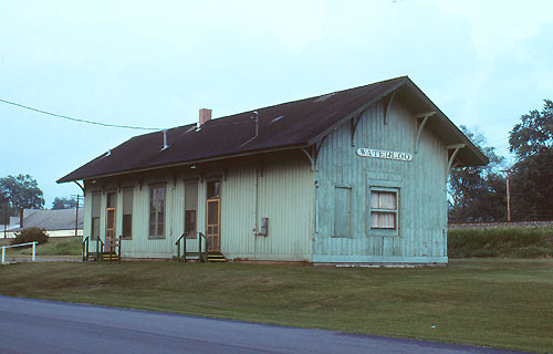 Waterloo station building in July 1991